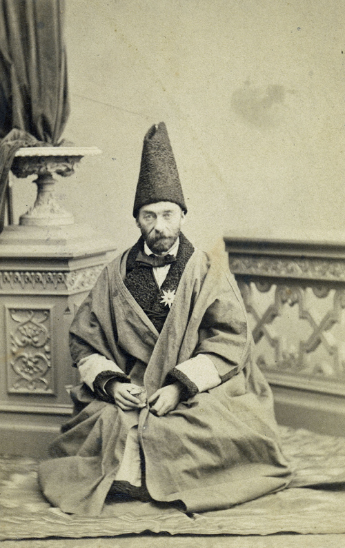 The austrian physician and ethnographer Jakob Eduard Polak (1818-1891)